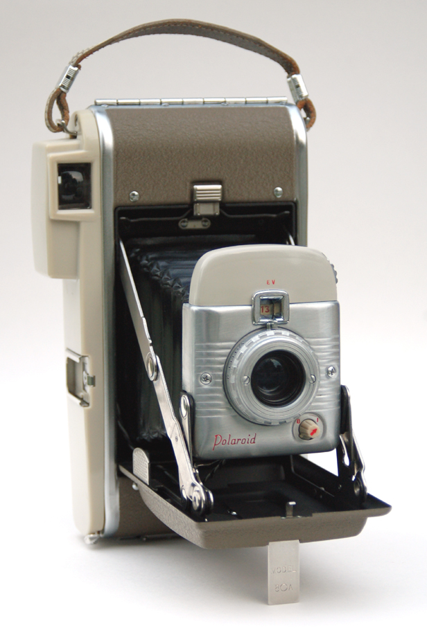 Folding bed camera made from 1957-59. I believe this camera was co-designed by Walter Dorwin Teague (can you confirm this, Rick Soloway?), although I didn't know that when I bought it. Just after uploading this photo, I found out that this camera is the same model used by Mary Moorman to take the famous photo of John F. Kennedy immediately after he was shot.